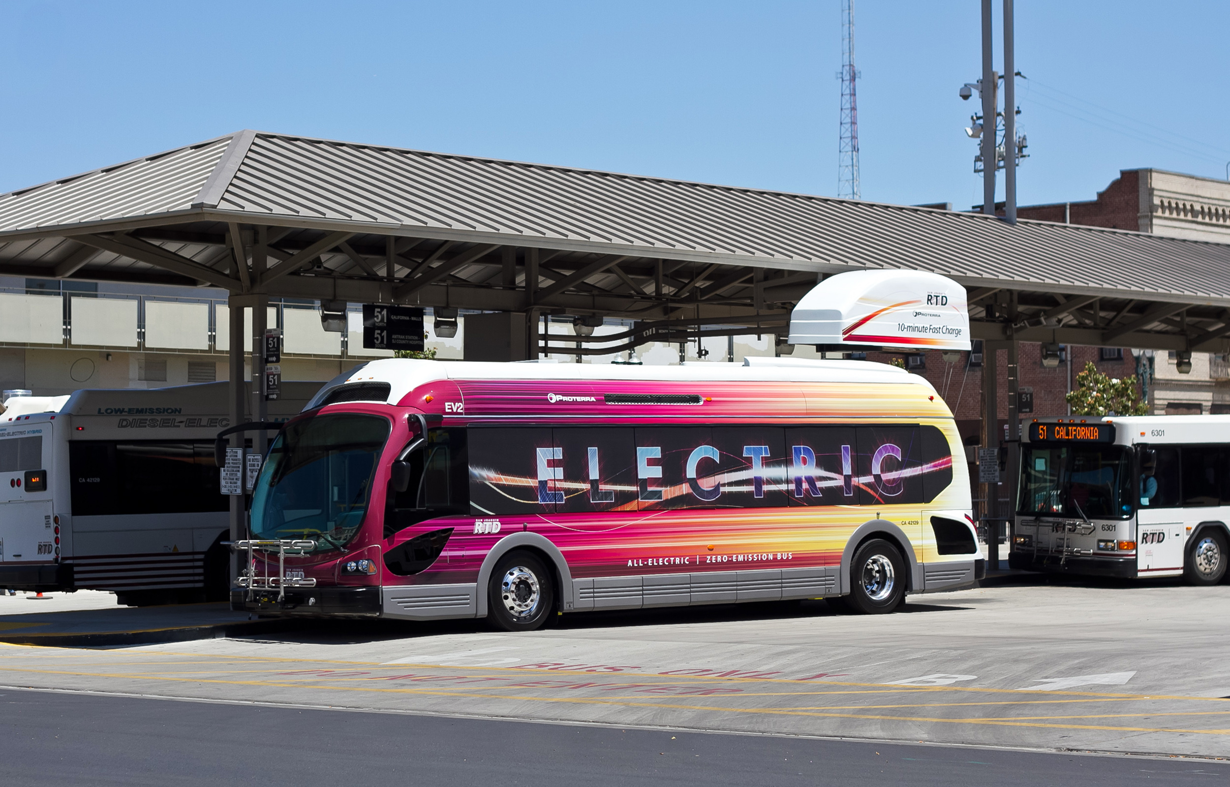 An all-electric Proterra BE35 bus operated by San Joaquin Regional Transit District (RTD), shown beside its "Fast Charging" station.